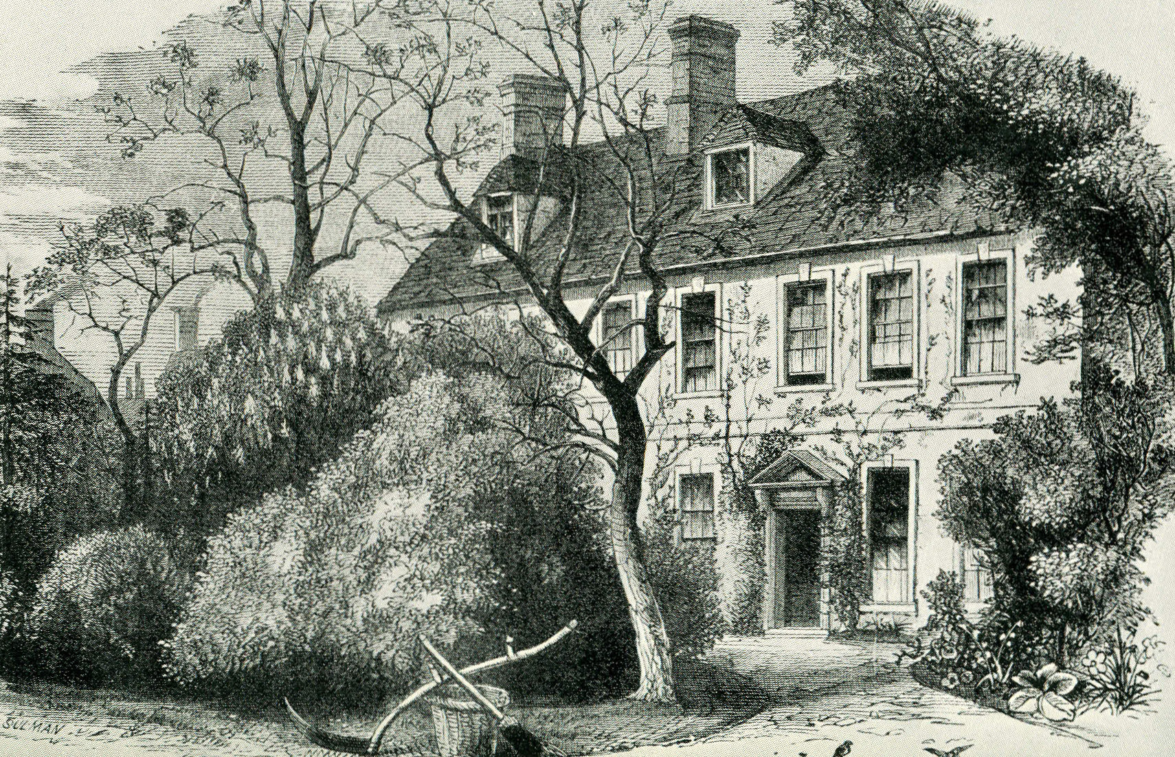 Engraving of the vicarage at Olney where John Newton spent his first years as a minister.